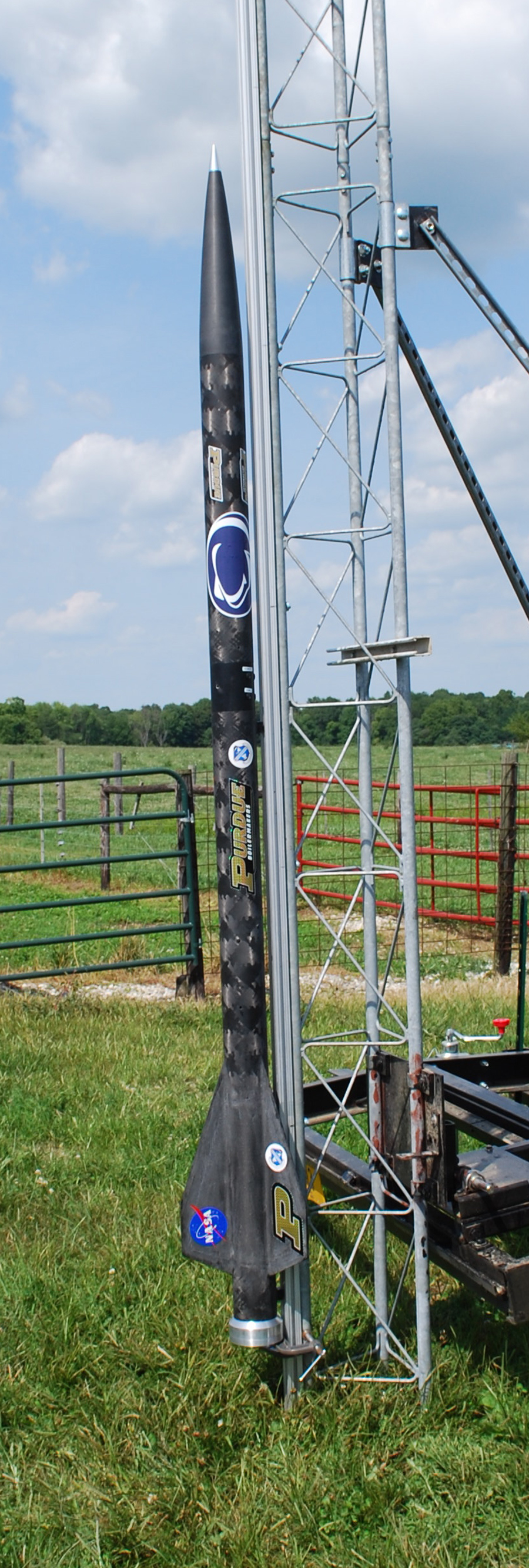 The Air Force Office of Scientific Research and NASA launched the first-ever rocket powered with environmentally friendly Aluminum-Ice Propellant.